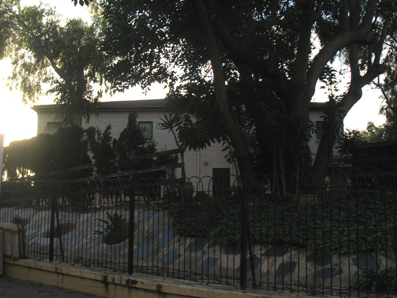 Gibraltar Local Disability Movement